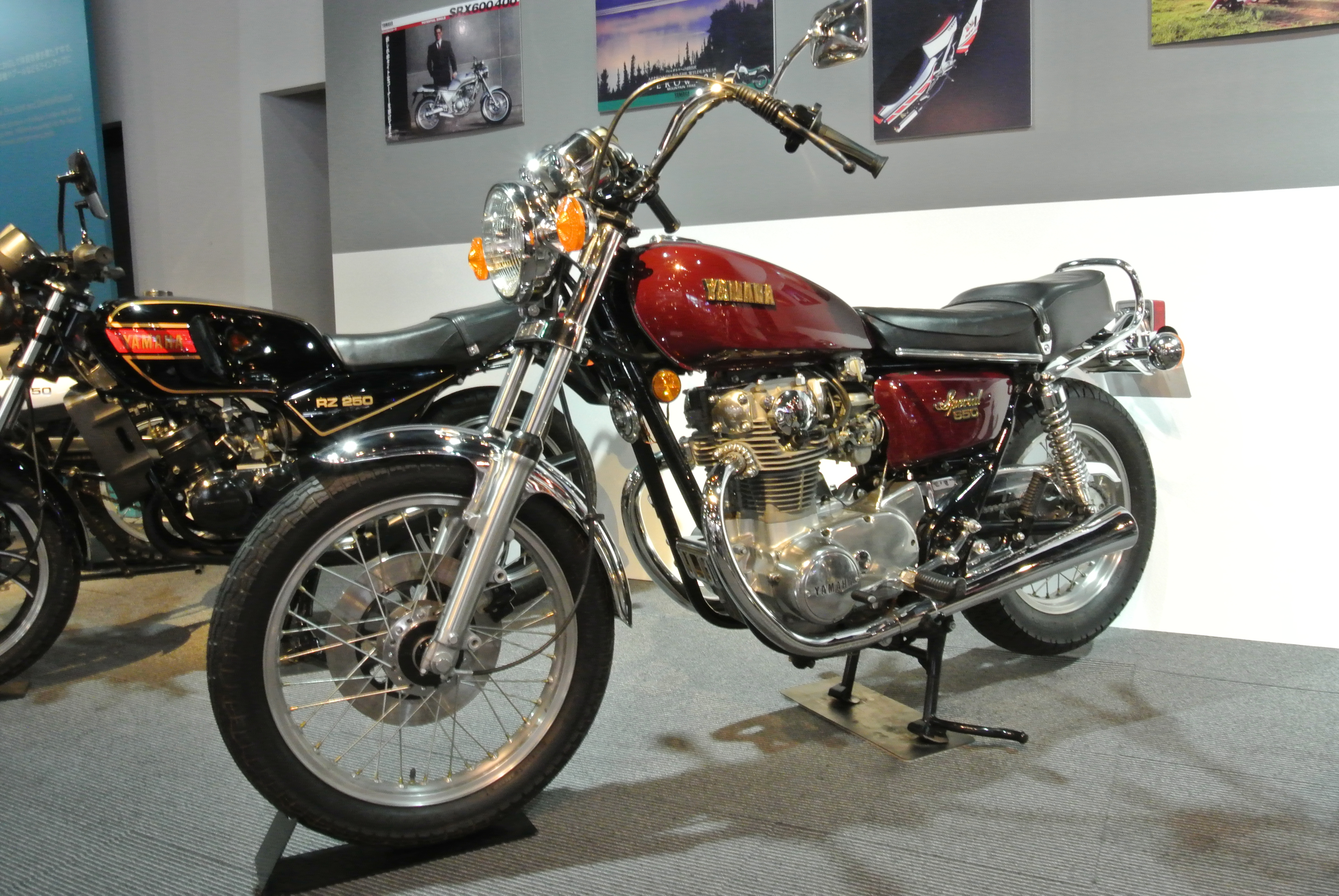 1978 Yamaha XS650 Special in the Yamaha Communication Plaza.